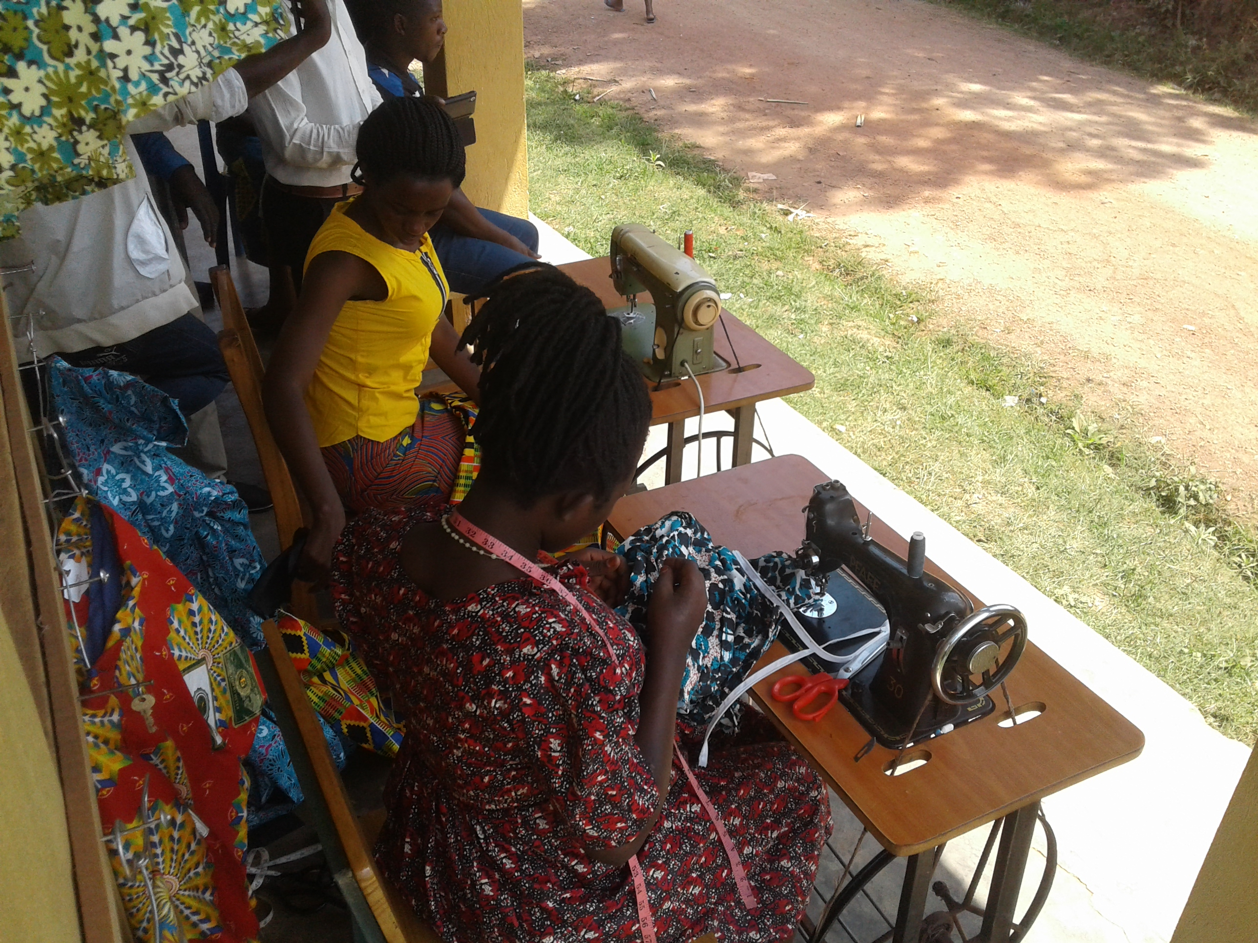 Tailoring workshop at African college of commerce and technology